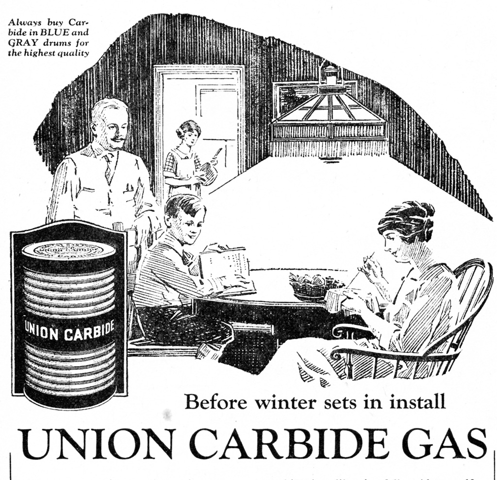 Union Carbide ad in the October 7, 1922 Country Gentleman. Gas lighting was much brighter than kerosene lamps or candles. Most farms had no electricity in 1922.